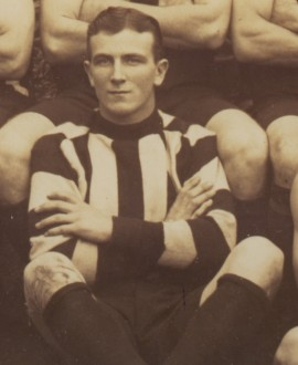 Photograph of Gus Dobrigh in 1914